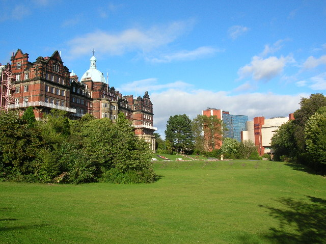 Majestic & Conference Centre. Taken from the grounds of the Majestic Hotel. This image is right on the edge of the grid square, the line runs through the middle of the hotel.